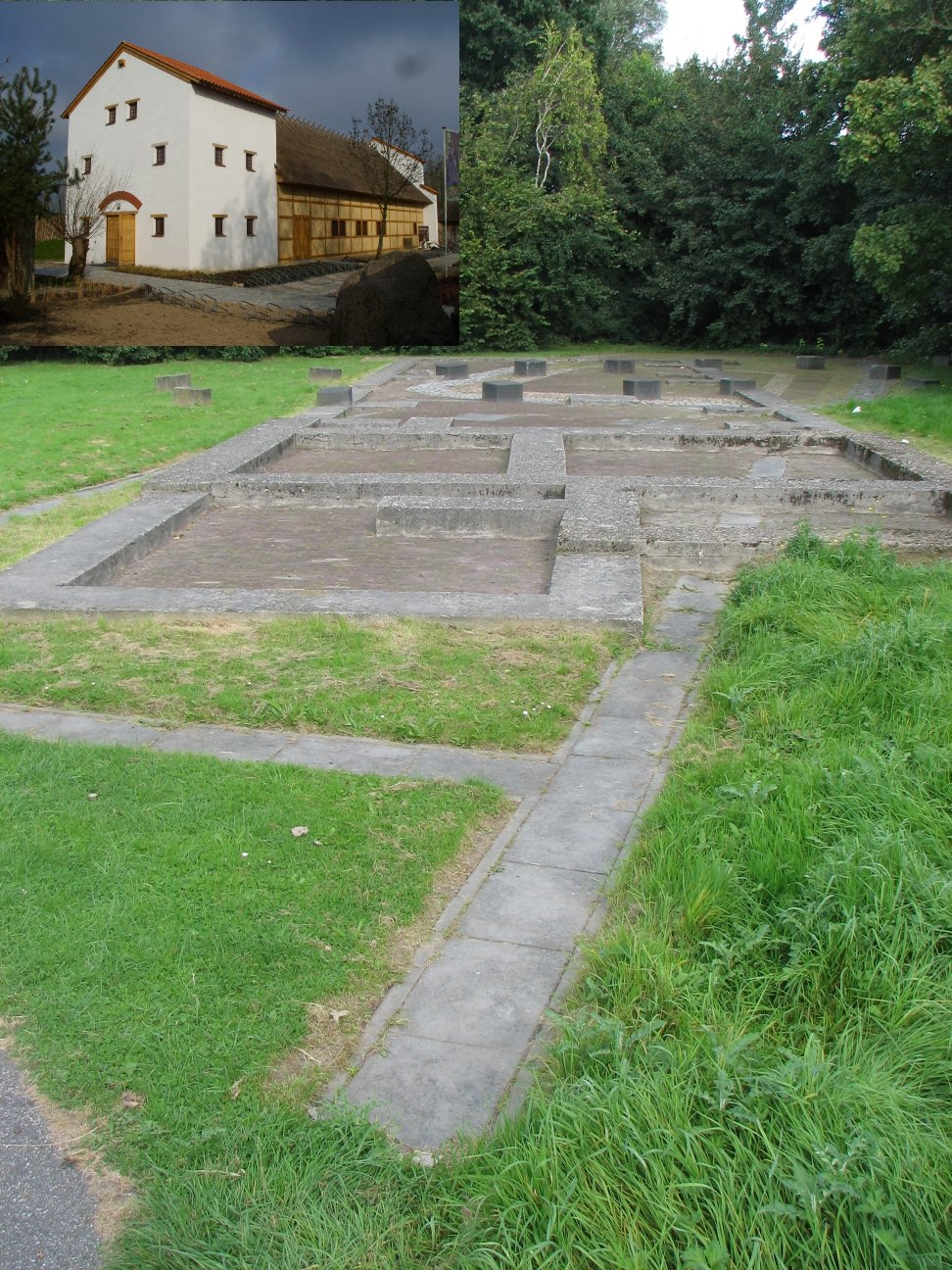 Restored foundations of houses of the Cannanefates at Tubasingel, Rijswijk, South Holland, The Netherlands. Inset: Reconstruction at Museum Archeon, Alphen aan den Rijn, The Netherlands